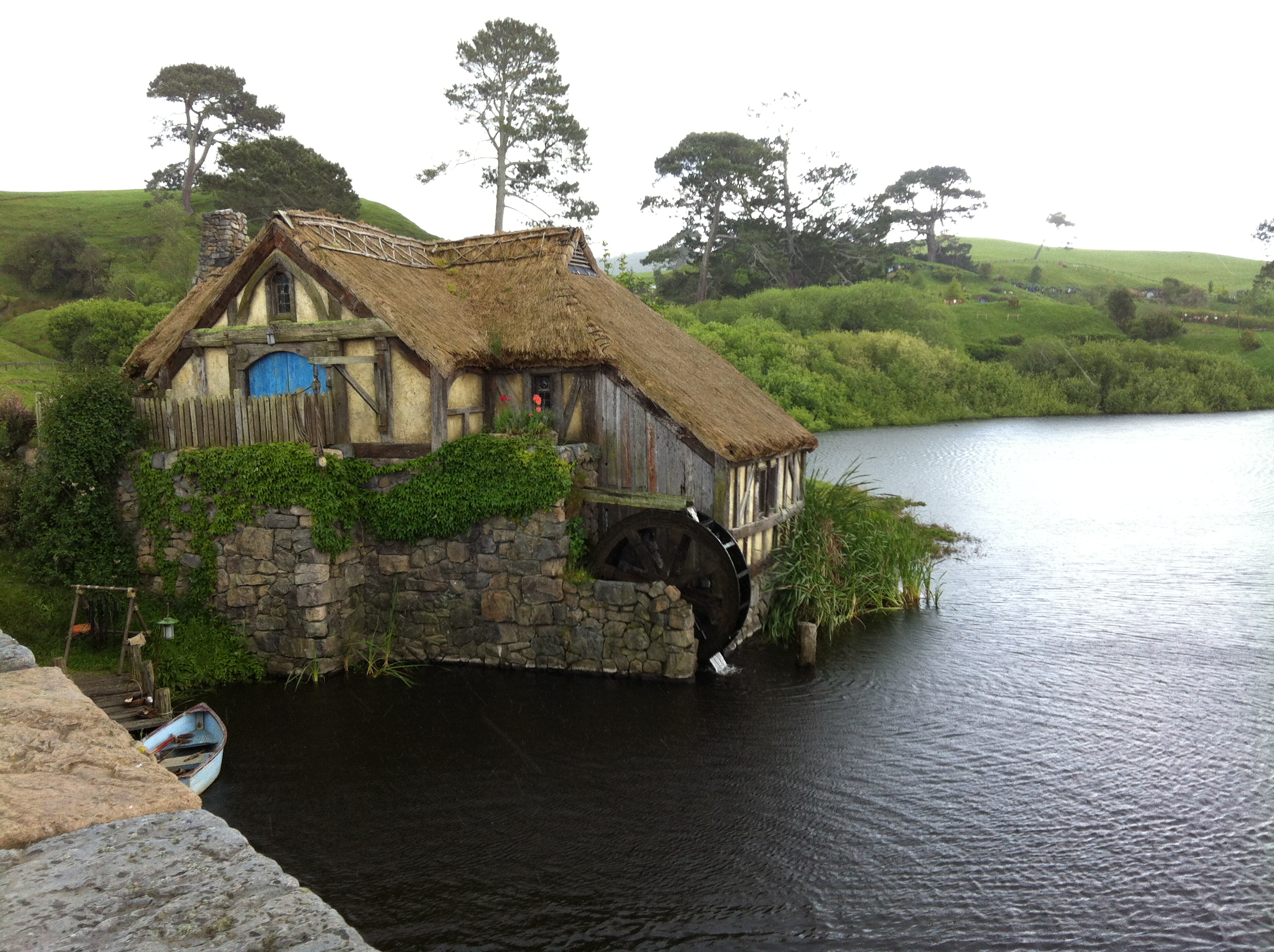 The Old Mill at Hobbiton, The Shires, Middle-Earth, near Matamata, New Zealand